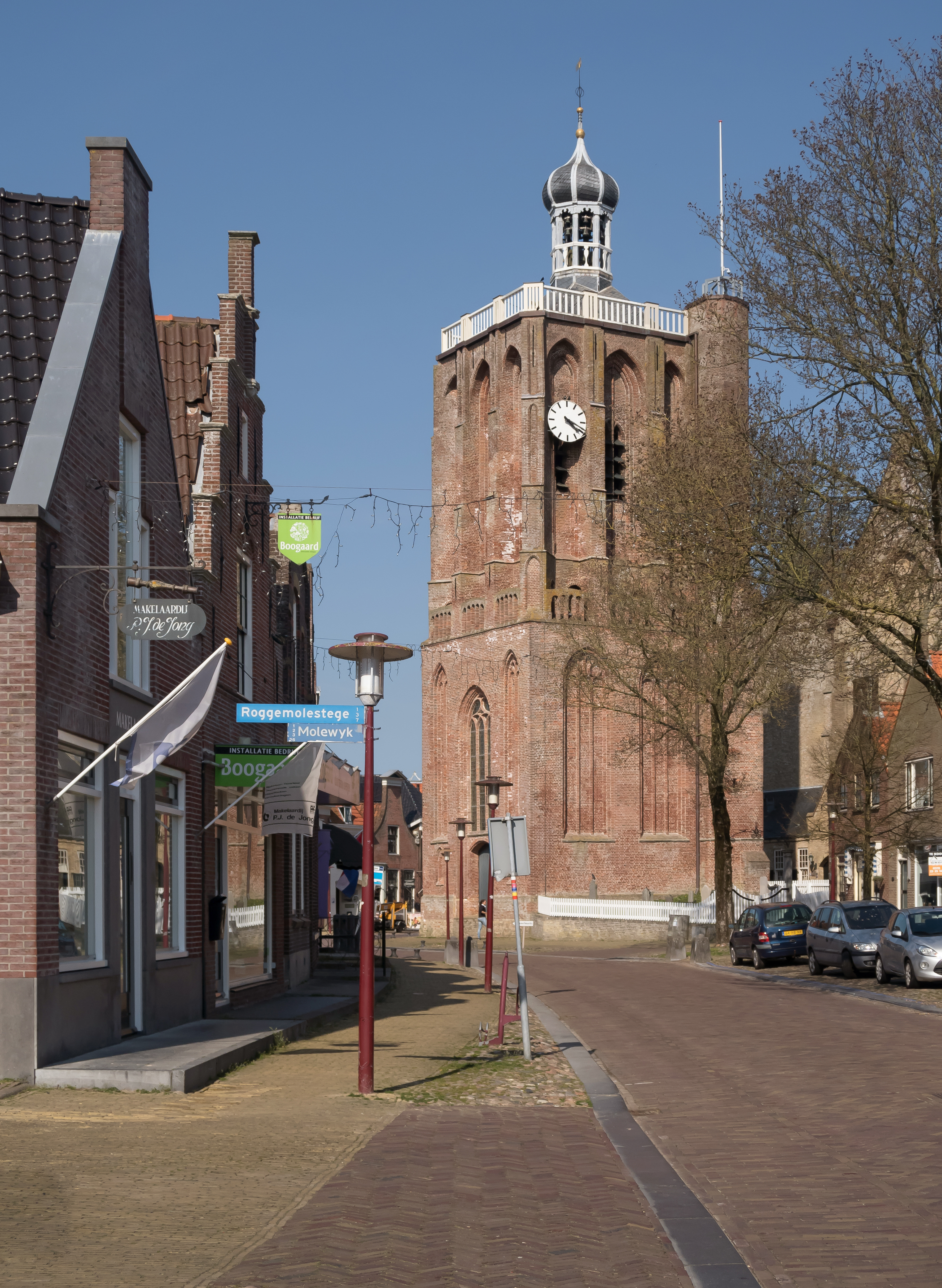 Workum, churchtower (de Grote of Sint-Gertrudiskerk)